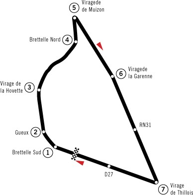 Reims-Guex